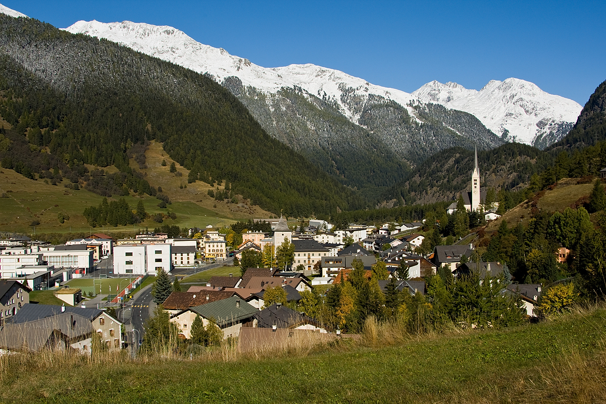 Zernez in Switzerland. Left: Piz d'Urezza (2906). Piz dal Ras (3025). Background: Piz Murtera (3044) and Piz Chastè (2850). Muttas da Clüs (1684) behind church